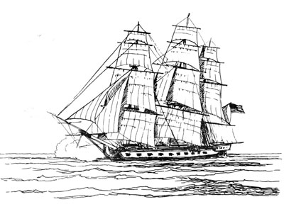 Continental Navy frigate Randolph.